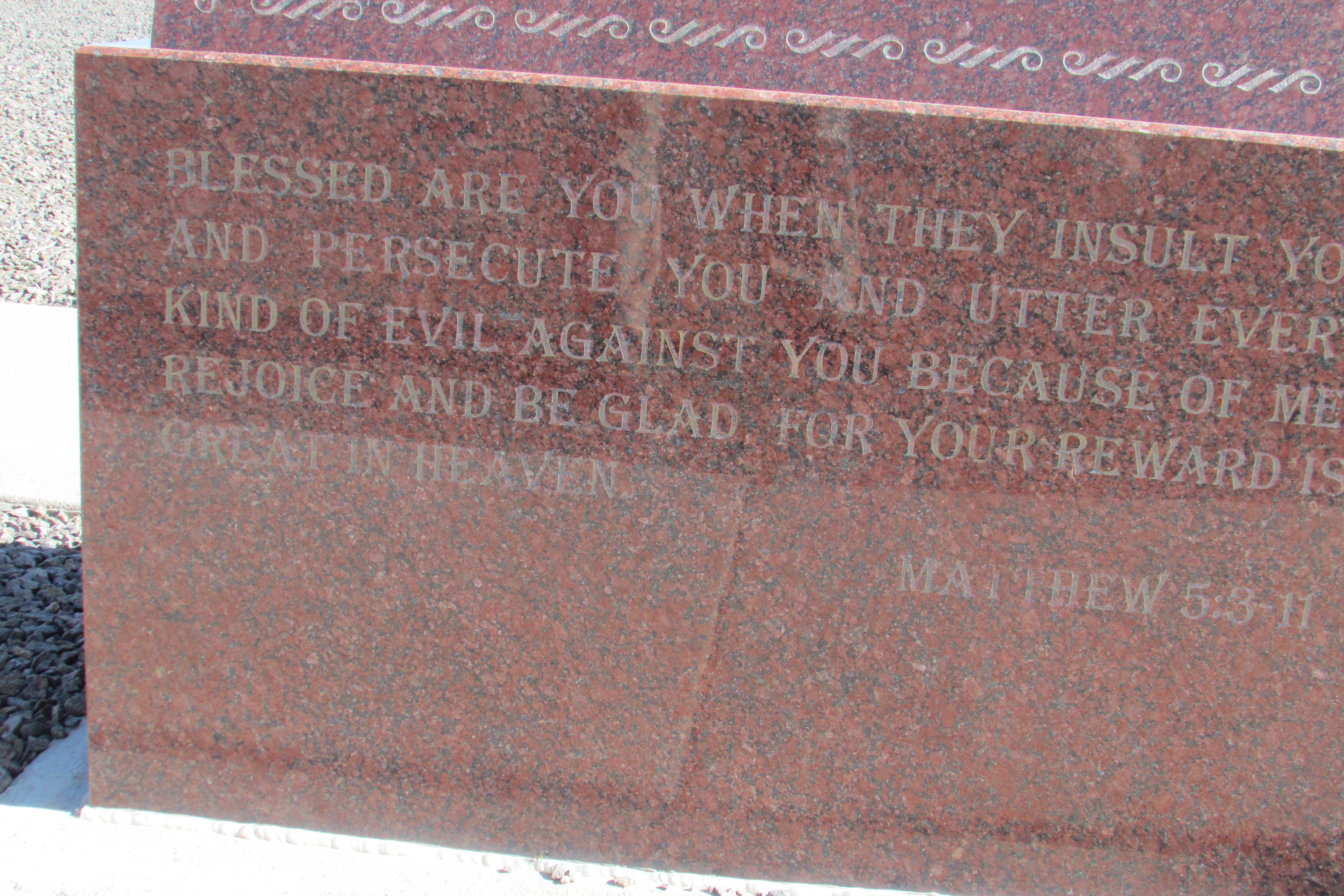 The Beatitudes are eight blessings recounted in the Sermon on the Mount in the Gospel of Matthew.